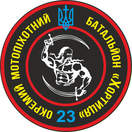 23rd Motorized Infantry Battalion patch (Ukraine)